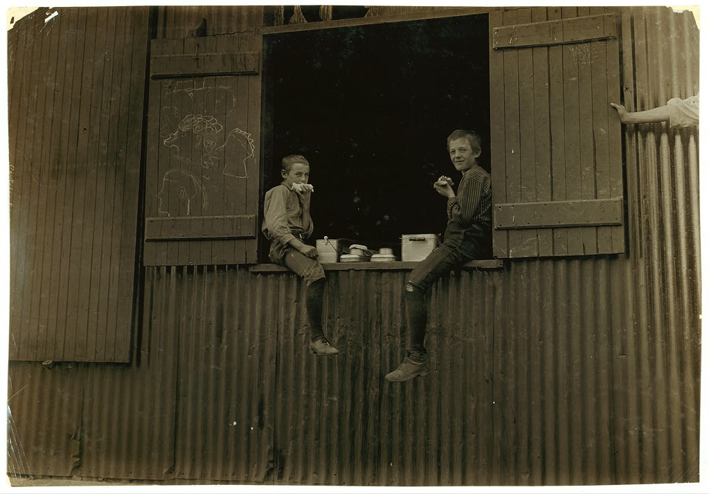 Lunch Time, Economy Glass Works, Morgantown, W. Va. Plenty more like this, inside. Location: Morgantown, West Virginia.